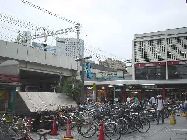 Keikyu Kawasaki station